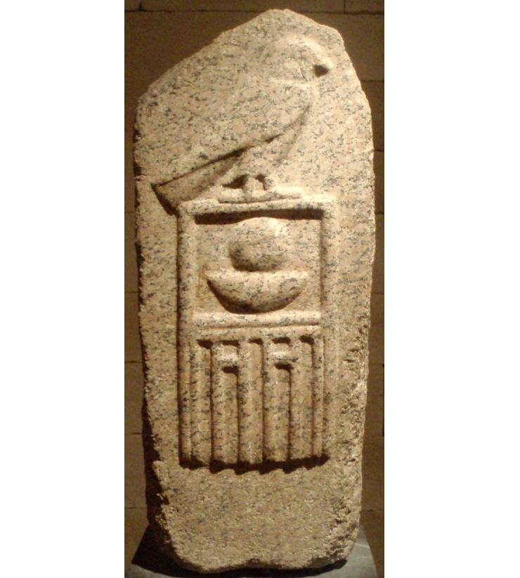 Stela of the 2nd dynasty pharaoh Raneb. Circa 2880 B.C.